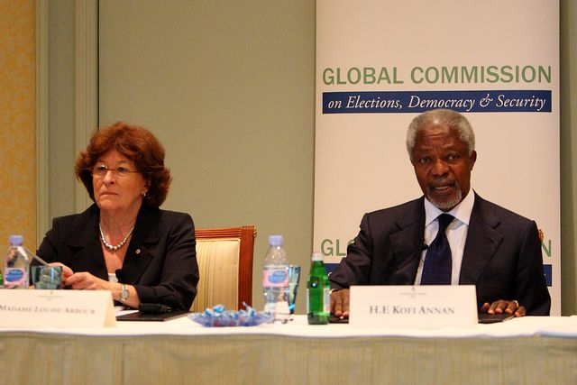 Conference